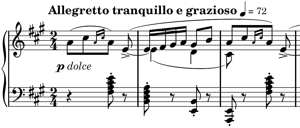 Opening of Tale Op.51 No.3 composed by Nikolai Medtner, made in lilypond version 2.12.0